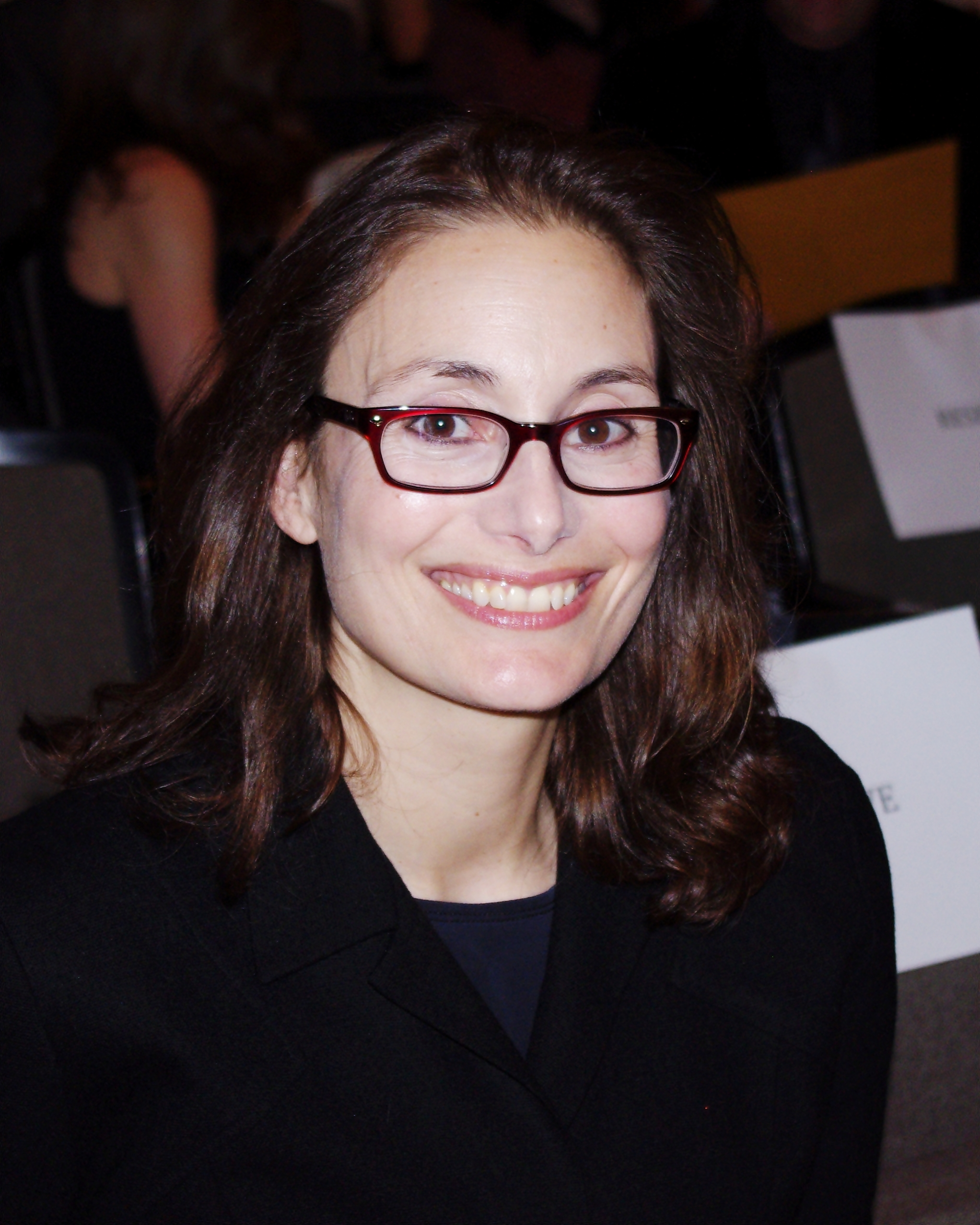 Dana Spiotta at the National Book Critics Circle Awards, where her book Stone Arabia was nominated for the fiction award.